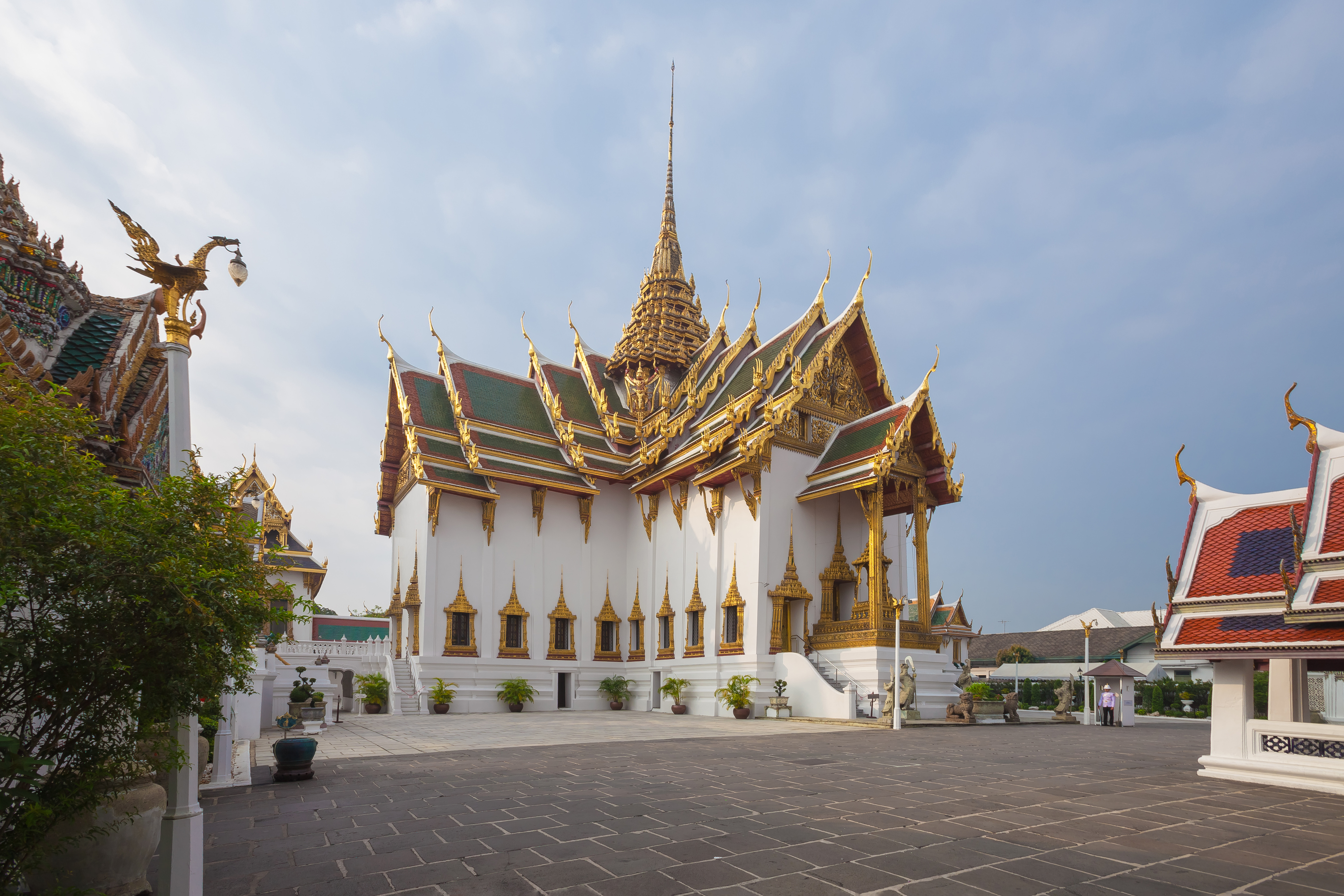 Phra Thinang Dusit Maha Prasat in Grand Palace, Bangkok.